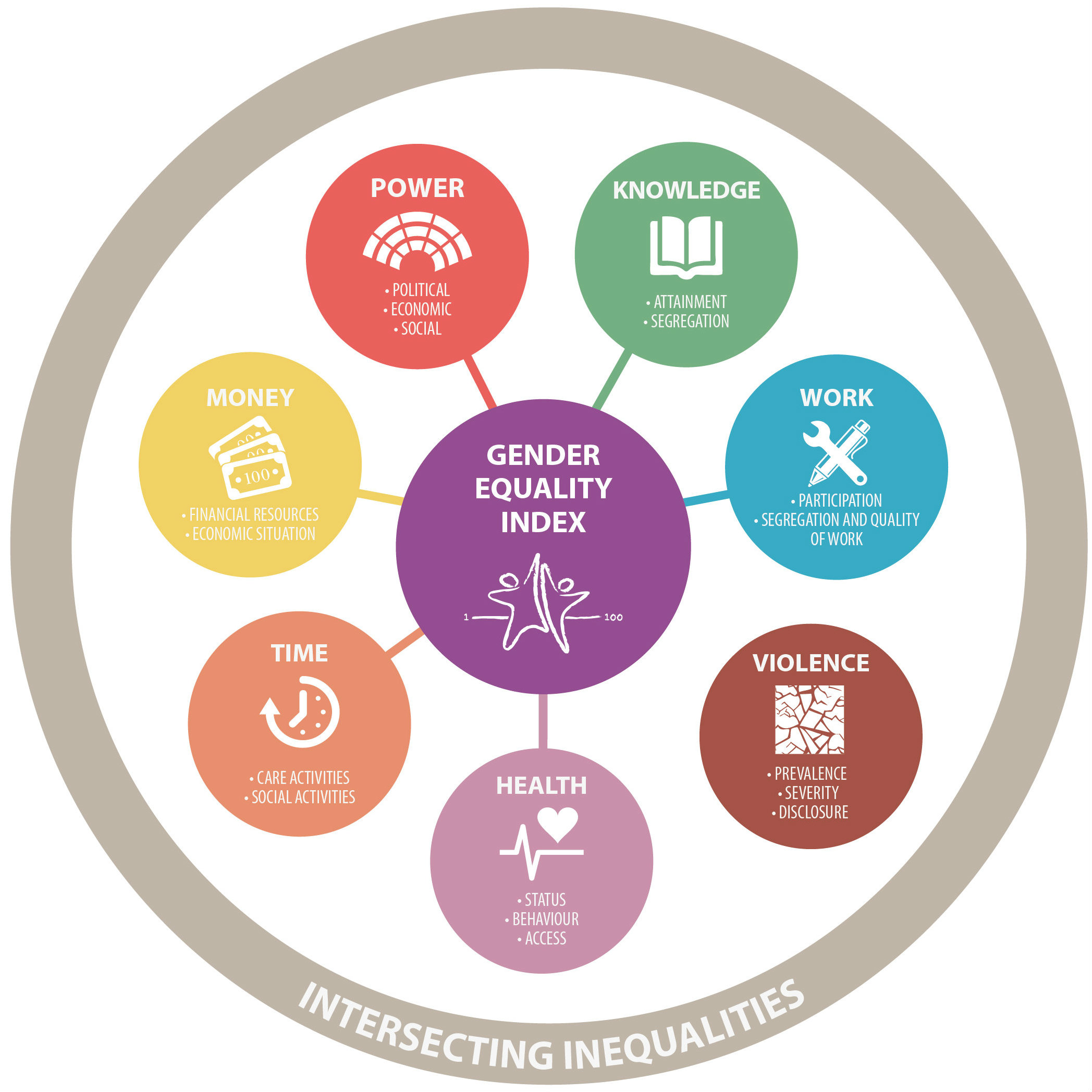 The core and satellite domains of the Gender Equality Index developed by the European Institute for Gender Equality (EIGE)